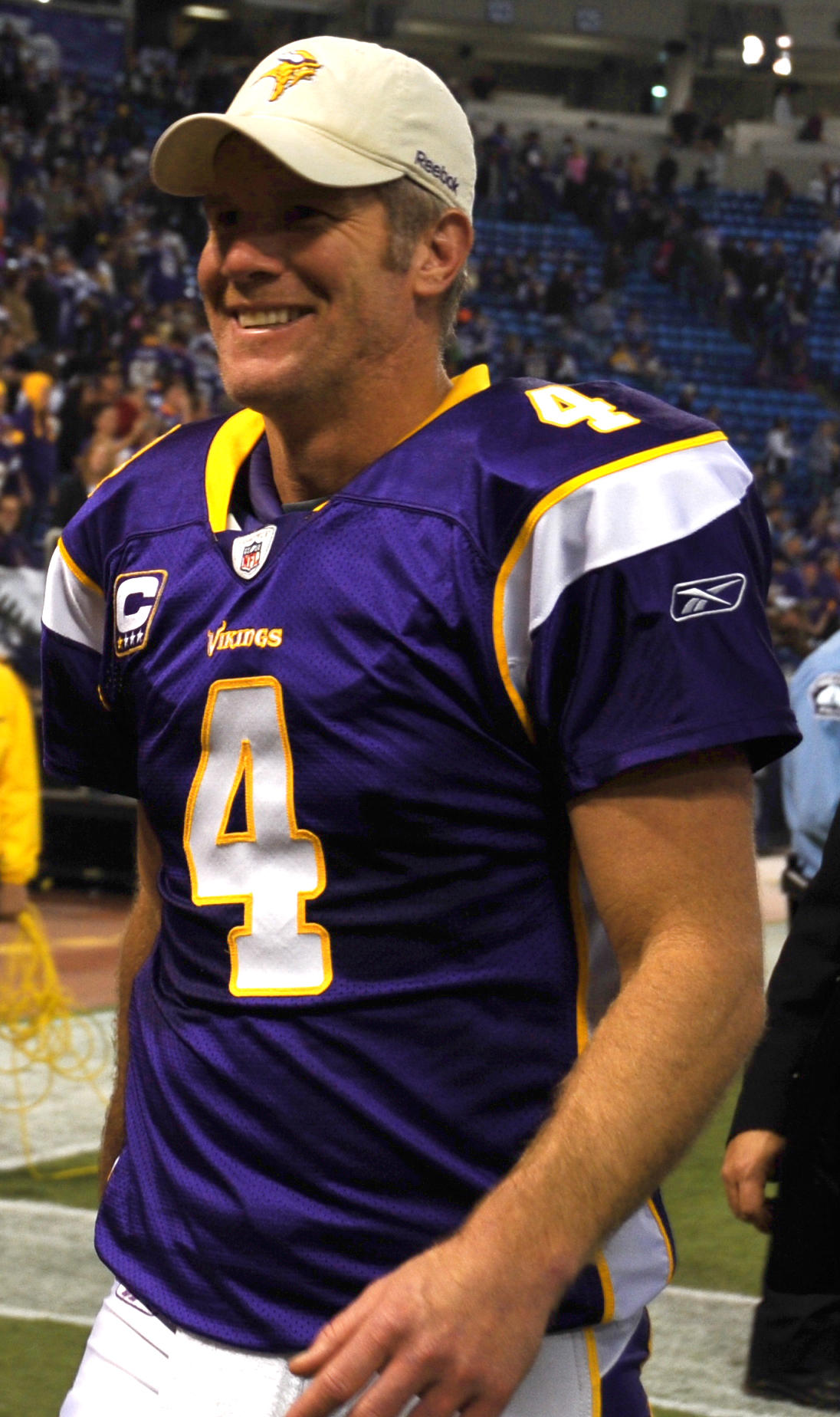 Minnesota Vikings quarterback Brett Favre after Lions at Vikings 10-27